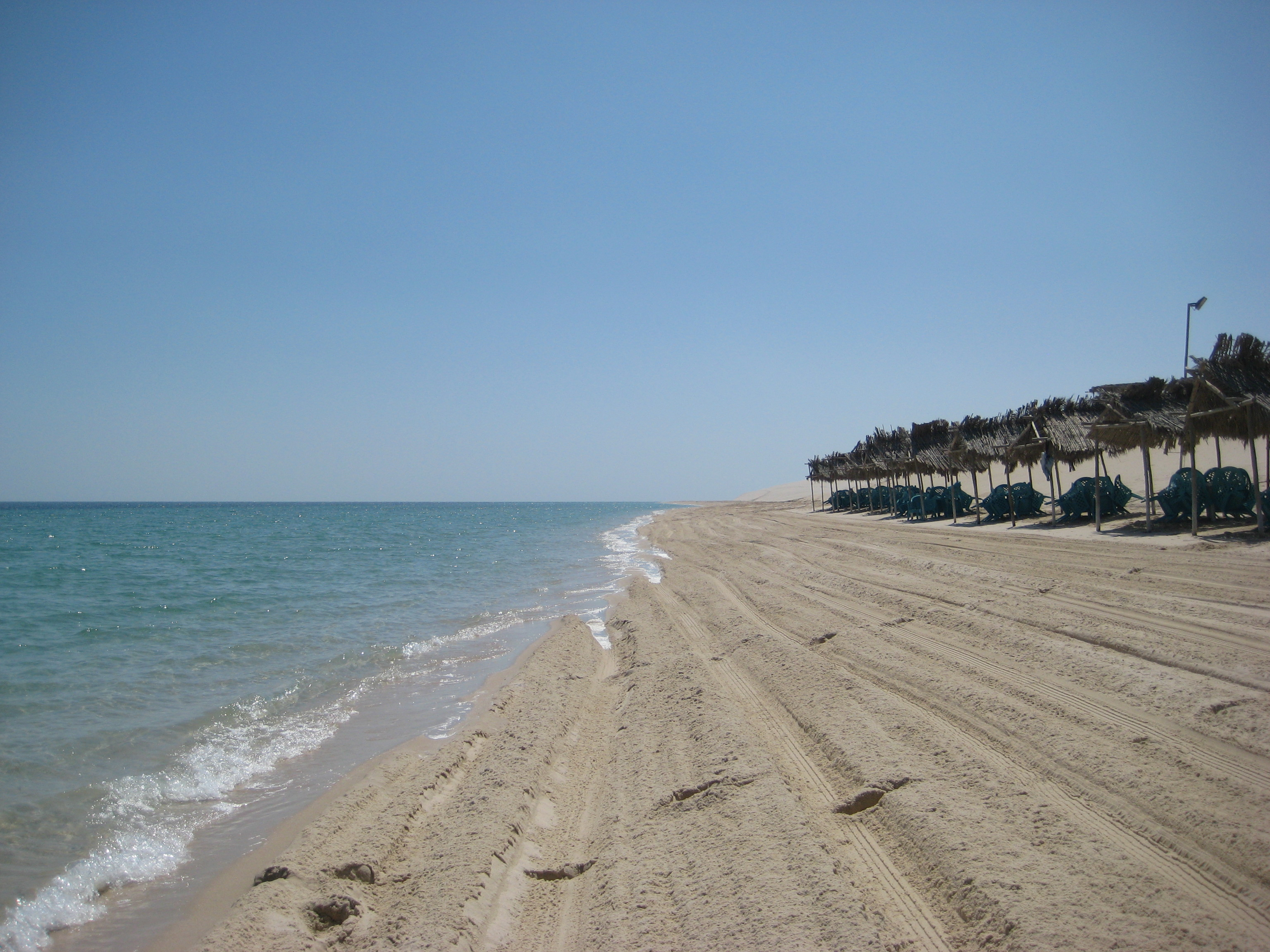 The beach in Khor Al Udaid, also known as Inland Sea.